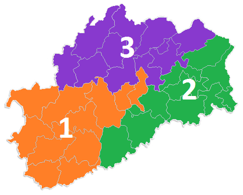 Constituencies of Haute-Saône - 1986